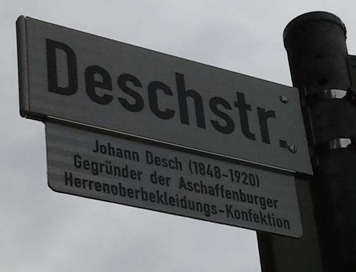 Streetsign "Deschstr." in Aschaffenburg